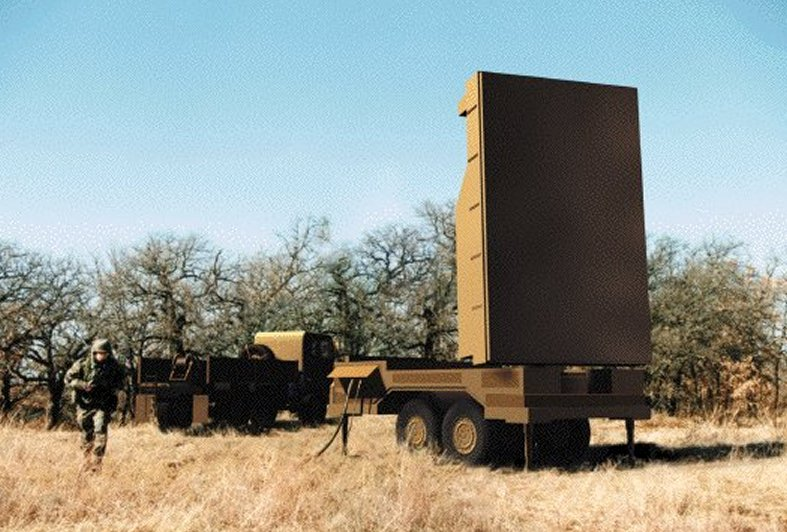 The Firefinder (AN/TPQ-47) Radar (the Q-47) is a replacement for the AN/TPQ-37 long range counter-fire radar, which came around from an upgrade program of the Q-37 — AN/TPQ-37 P3I (Block II). The AN/TPQ-47 provides rapid and increased target location, improved accuracy, and target classification at greater ranges. It can locate light and heavy mortars at ranges out to 18 km and heavy mortars out to 30 km. It locates artillery and light rockets out to 60 km and heavy rockets out to 100 km. General aiming ranges are 18 km for mortars, 60 km for artillery and light rockets and 100 km for heavy rockets.